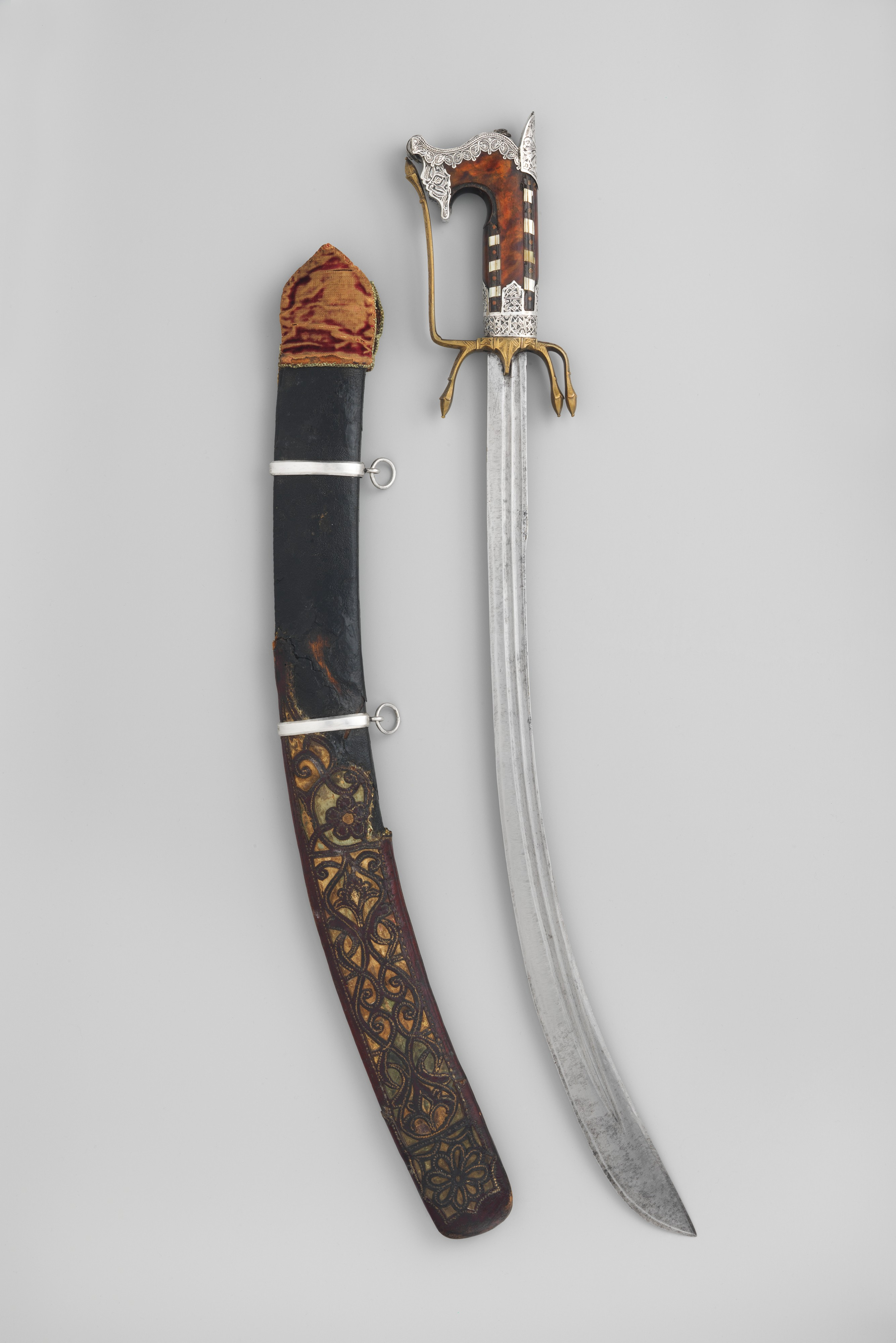 hilt and scabbard, Algerian; blade, European; Saber with scabbard; Swords